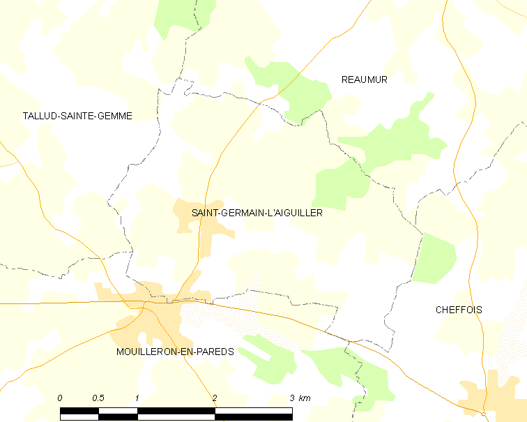 Map of French municipality Saint-Germain-l'Aiguiller